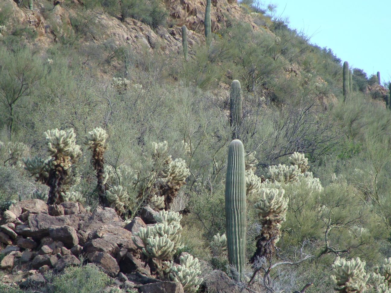 Gates Pass, Tucson Mountain County Park, Arizona